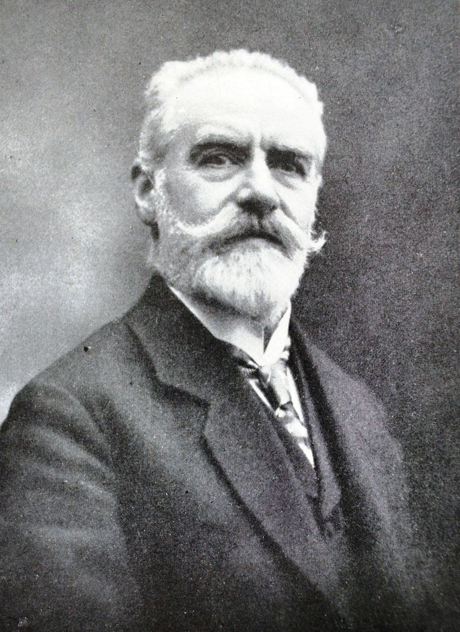 Bedřich Jahn, city councilor, lawyer and Director of Divadlo na Vinohradech (1935-1940) (photo before 1930)